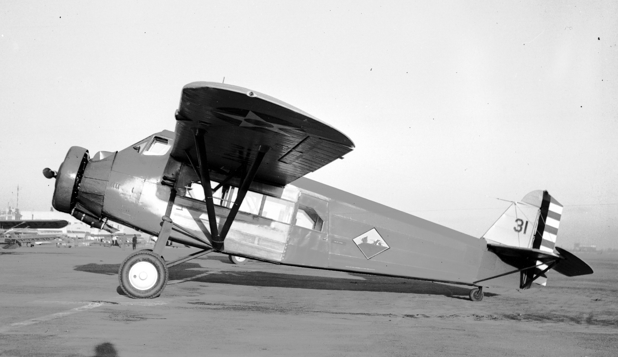 At Oakland Airport in 1936. From Gray Field in Washington.